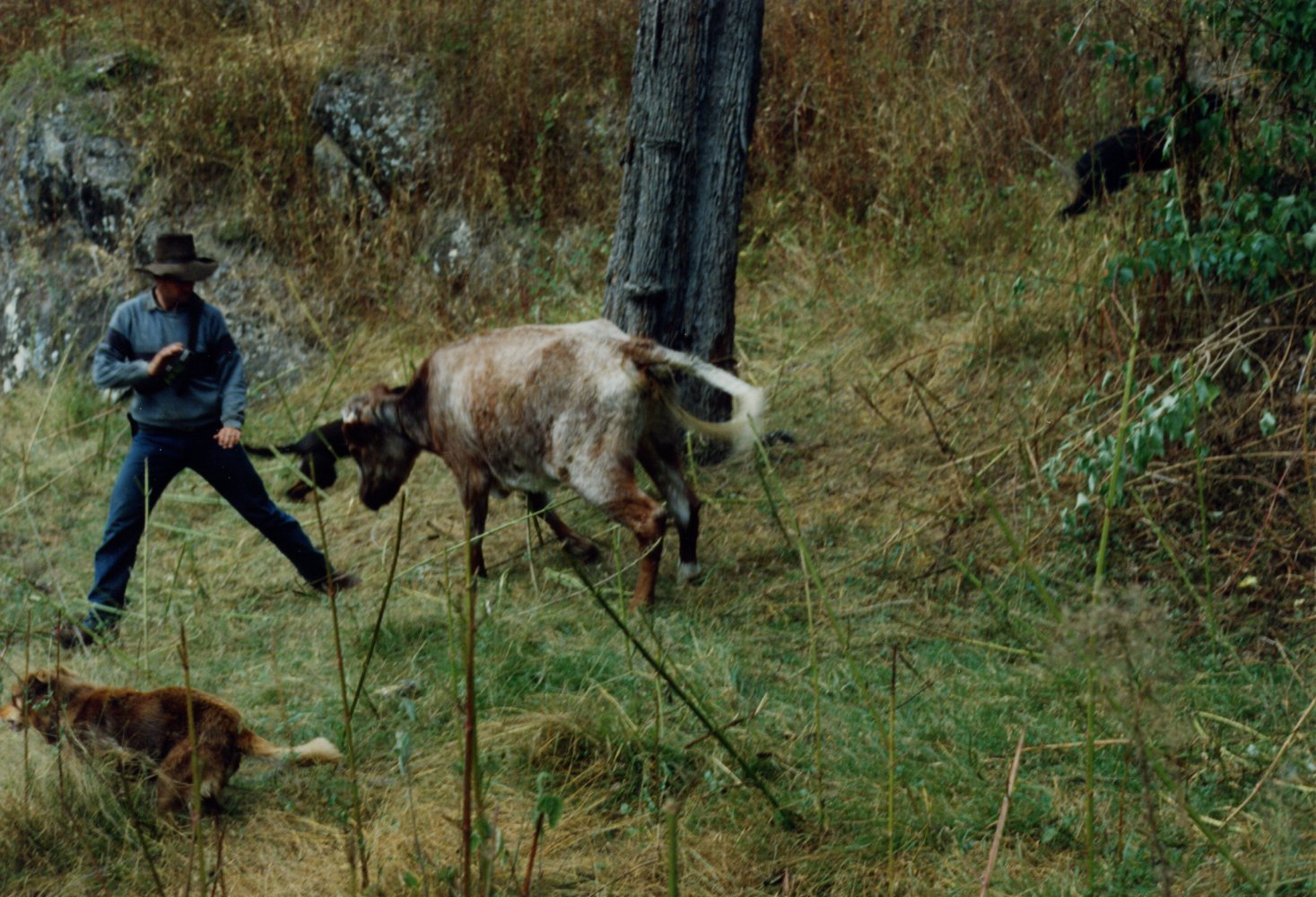 Mustering feral cattle can be dangerous, Northern Tablelands, NSW.